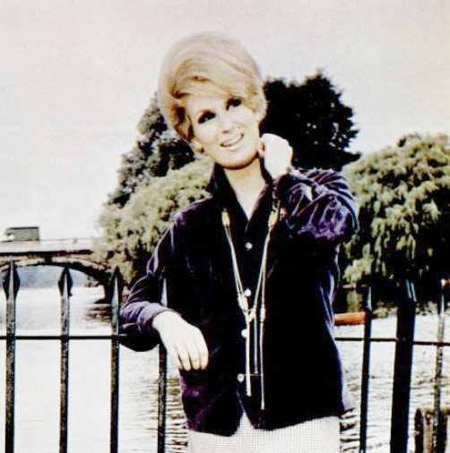 Trade ad for Dusty Springfield's single "You Don't Have To Say You Love Me".To better adapt it to his respective Wikipedia article, the ad was cropped and cleaned in a graphics editing program. The original can be viewed at the source below.